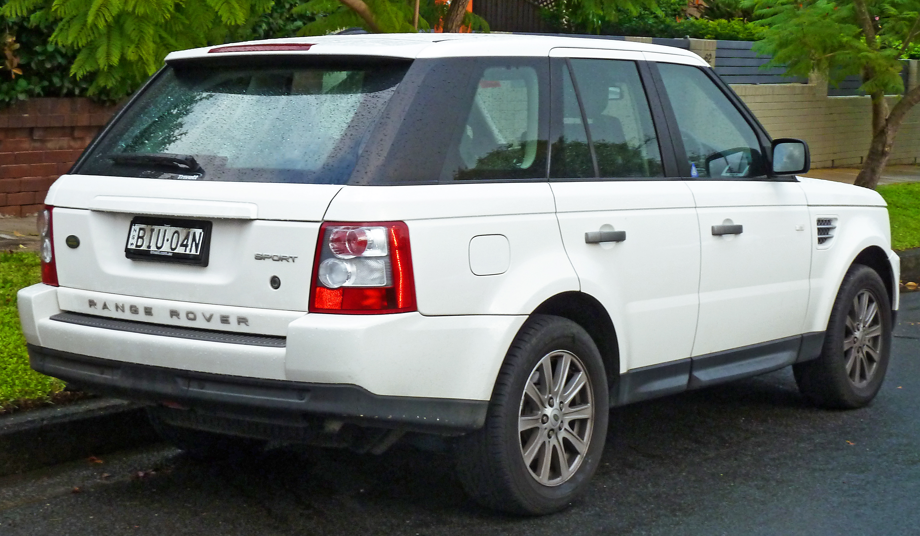 2008–2009 Land Rover Range Rover Sport wagon. Photographed in Roseville, New South Wales, Australia.